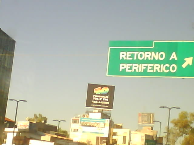 publicidad Top40 Mexico